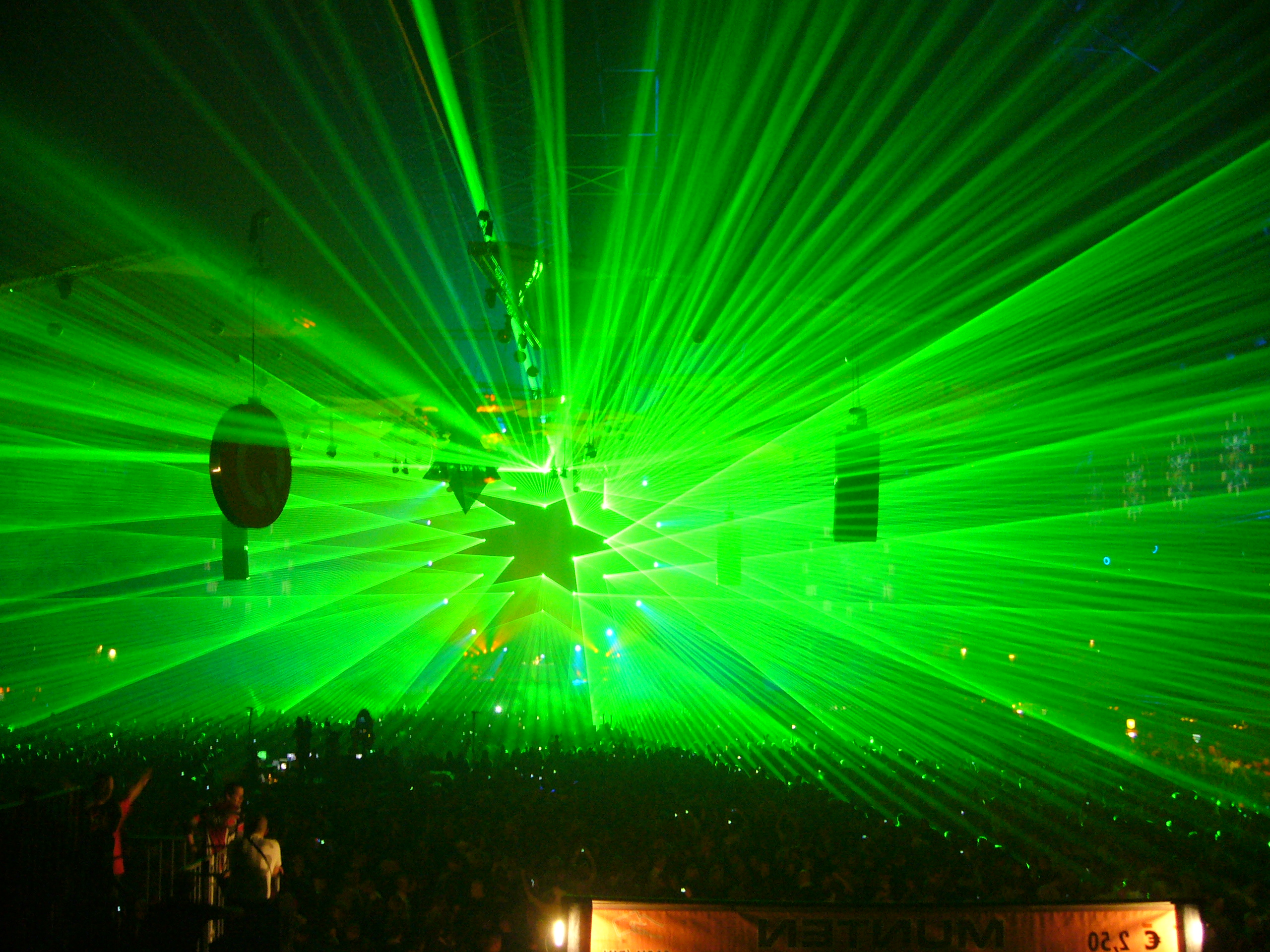 Qlimax 2008 at Gelredome in Arnheim. View from the tribune to the stage. Headhunterz on the turntables at the stage.